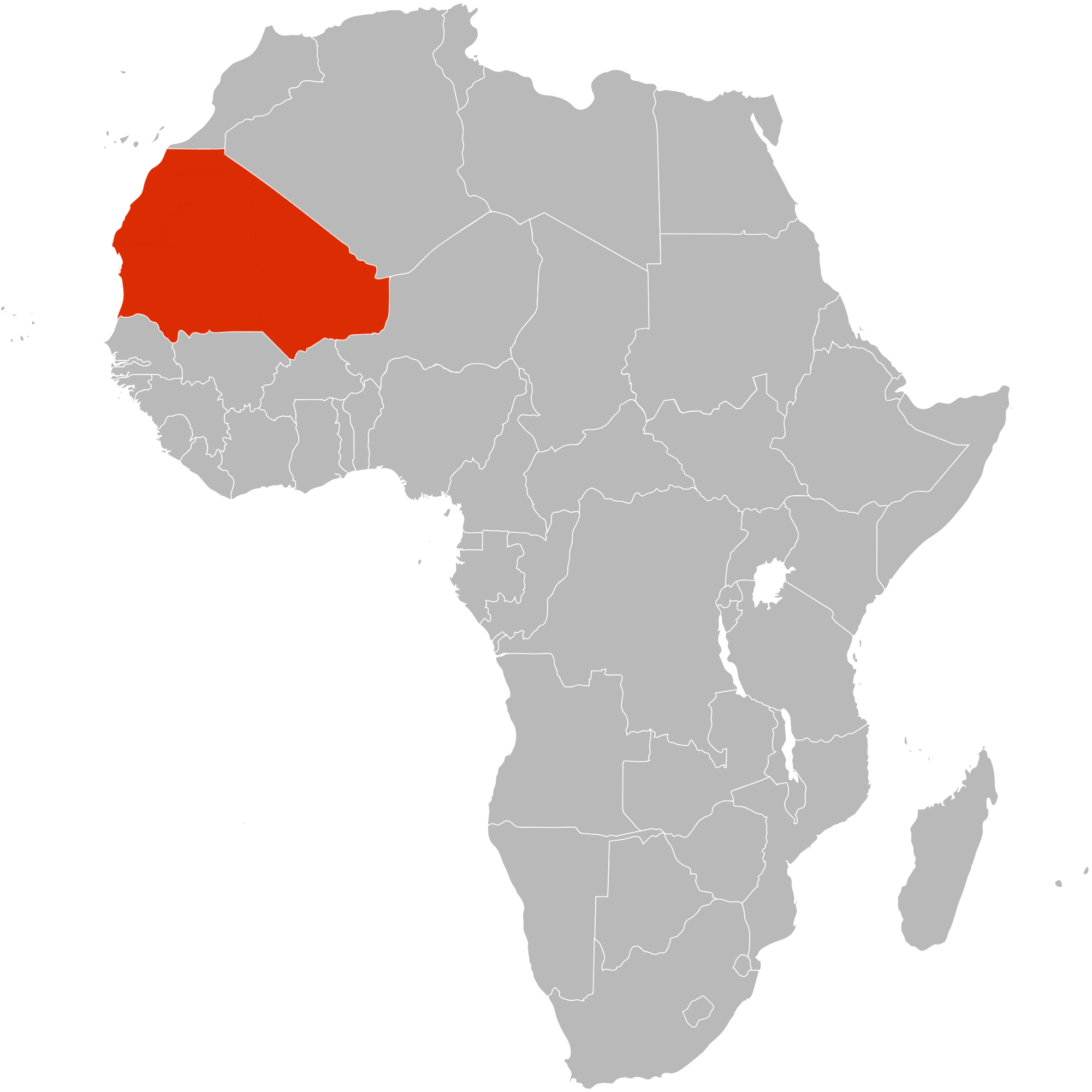 A map of "Greater Mauritania" as advocated by Mokhtar Ould Daddah, the first President of Mauritania.